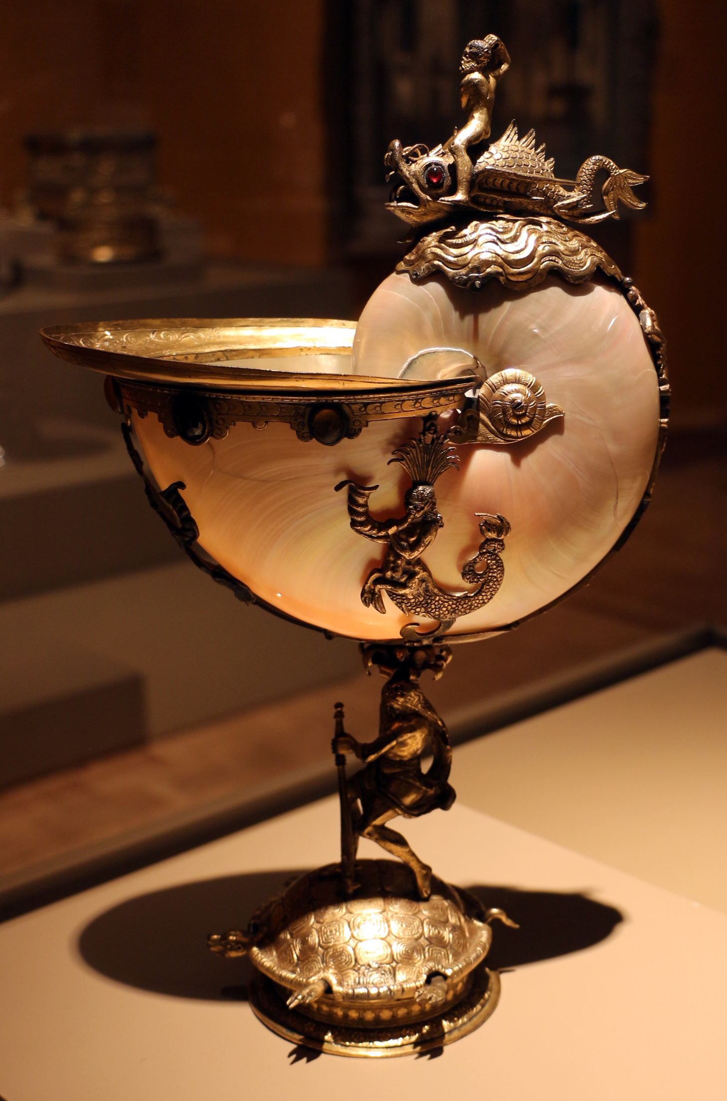 Collections of the Milwaukee Art Museum